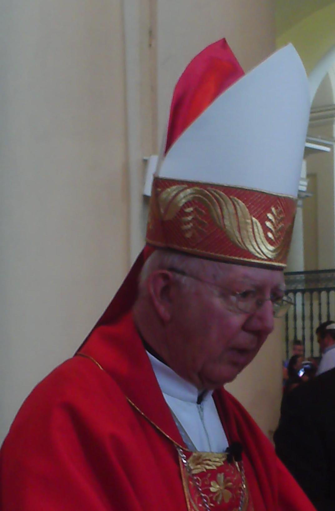 Pedro Rubiano Saenz